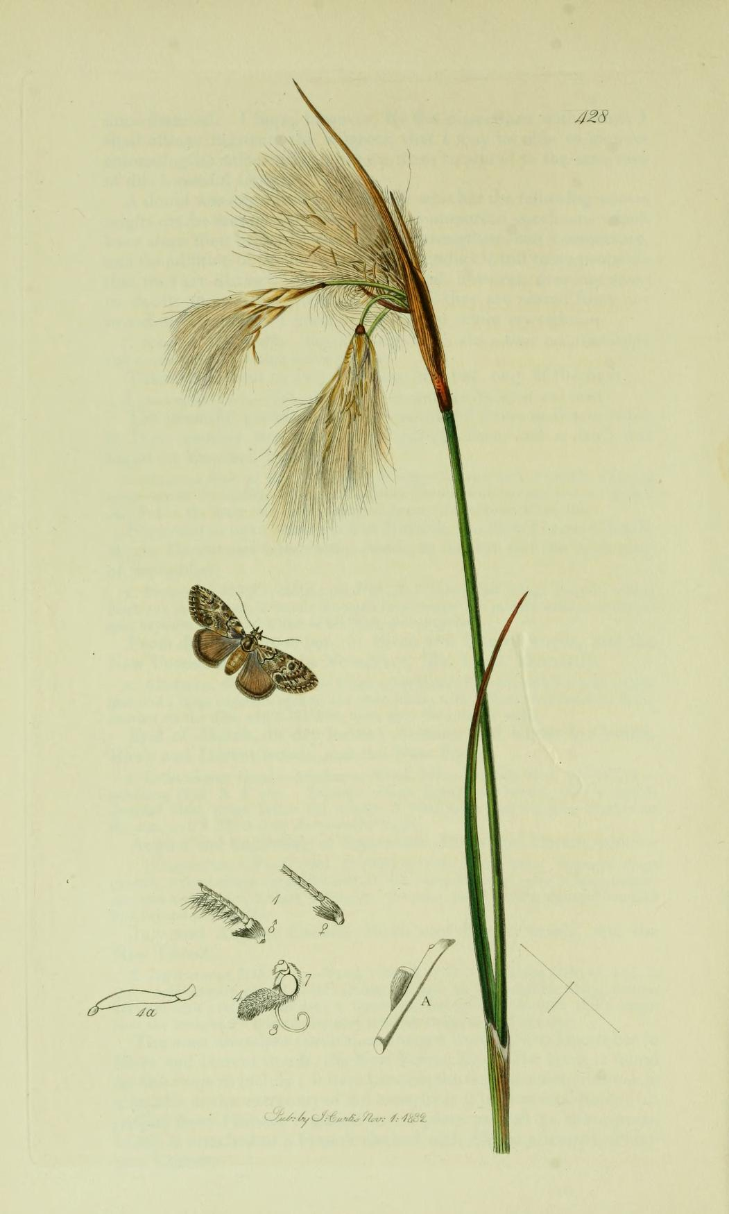 An illustration from British Entomology by John Curtis. Lepidoptera: Nola monachalis or Meganola strigula (Small Black Arches).